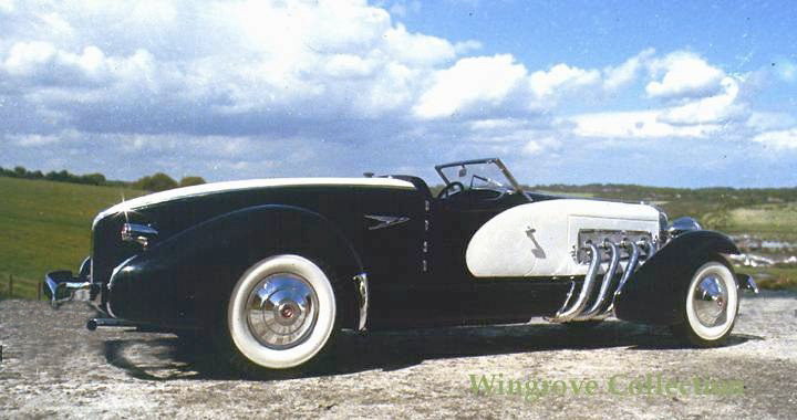 Photograph of 1933 Duesenberg. SJ 508 by Gerald Wingrove